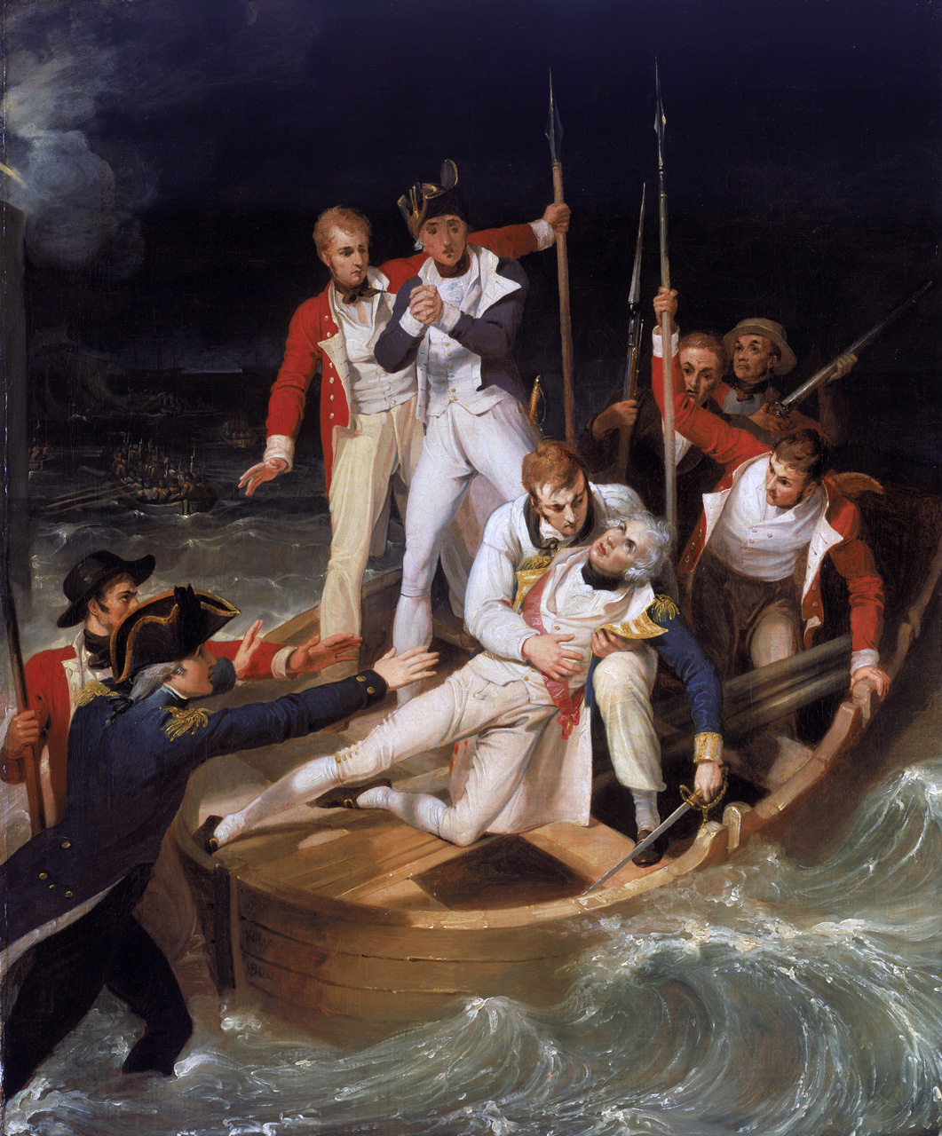 In the painting, Nelson's barge is shown beached in the surf, in port-bow view. Hit on the point of landing he reeled and staggered back into the boat where he lies, having transferred his sword to his left hand. He is supported by a sailor and there is blood on the sailor's shirt and on the lining of Nelson's coat. Lieutenant Josiah Nisbet, Nelson's stepson, stands behind him and is saving his life by staunching the blood. Behind him and to the left are two other lieutenants. Also in the barge and to the right of the group is a third lieutenant grasping a boarding pike, with two sailors behind him. In the left foreground standing in the shallow water is Captain Thompson, arms outstretched towards Nelson, together with another lieutenant. In the left background is a bow view of another boat approaching the beach. In the right foreground the artist has used the waves to enhance the dramatic impact. Westall has conveyed the staged effect by employing a dramatic language of gesture and expression. This painting of the incident was made in 1806. It was commissioned by John M'Arthur, as a plate for 'The Life of Admiral Lord Nelson, KB', which he published with James Stanier Clarke in 1809, and which was the first major biography of Nelson. Engraved by J. Neagle in 1809, it formed part of a series of five painted for the book by Westall, all intended to show Nelson's life as a series of heroic acts. With two by West, also used in the same way (BHC0566 and BHC2905), and Lemuel Abbott's best-known portrait of Nelson (BHC2889) all were presented to Greenwich Hospital in 1849 'by Jasper de St Croix, Esq., and several other patriotic individuals'.